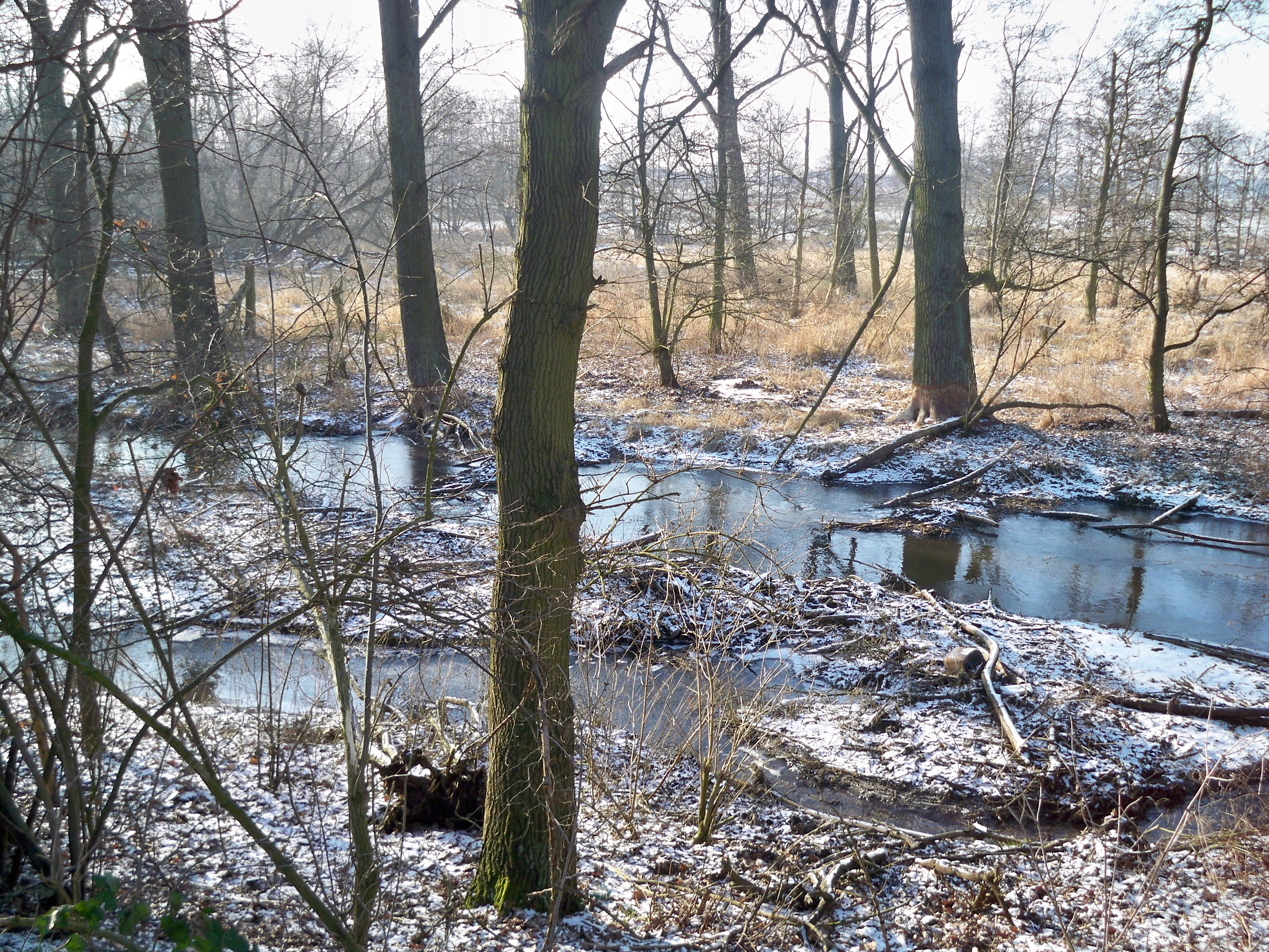 Brome, Lower Saxony, Nature reserve "Ohreaue bei Altendorf"